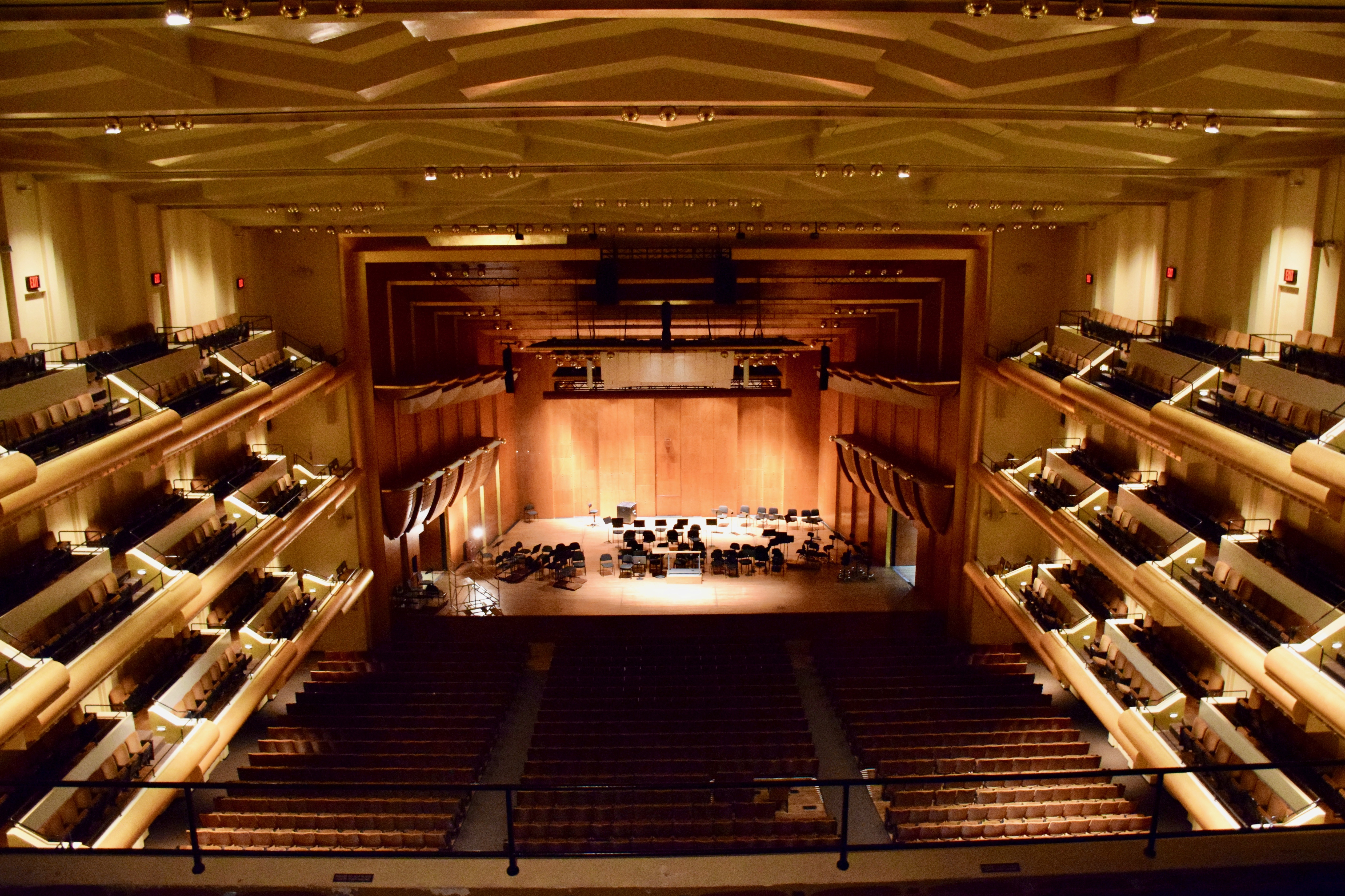 David Geffen Hall, Lincoln Center Site: David Geffen Hall (Lincoln Center)